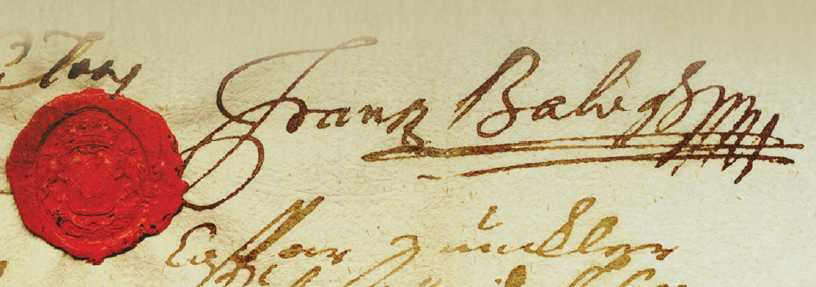 A billegpusztai Balogh-Esterházy kastély építtetőjének, Balogh Ferencnek pecsétje és aláírása